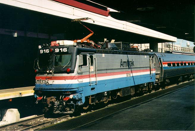 AEM-7 #916 at Union Station, Washington, D.C. in 1997